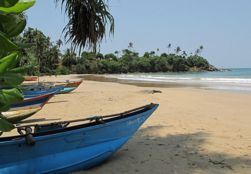 Pehambiya Headland & Oru fishing canoes at eastern end of Dickwella Beach, Southern Sri Lanka.